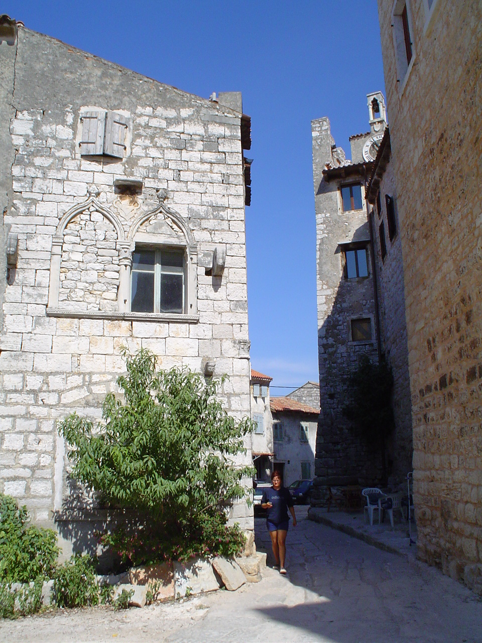 Street in Bale (Croatia)